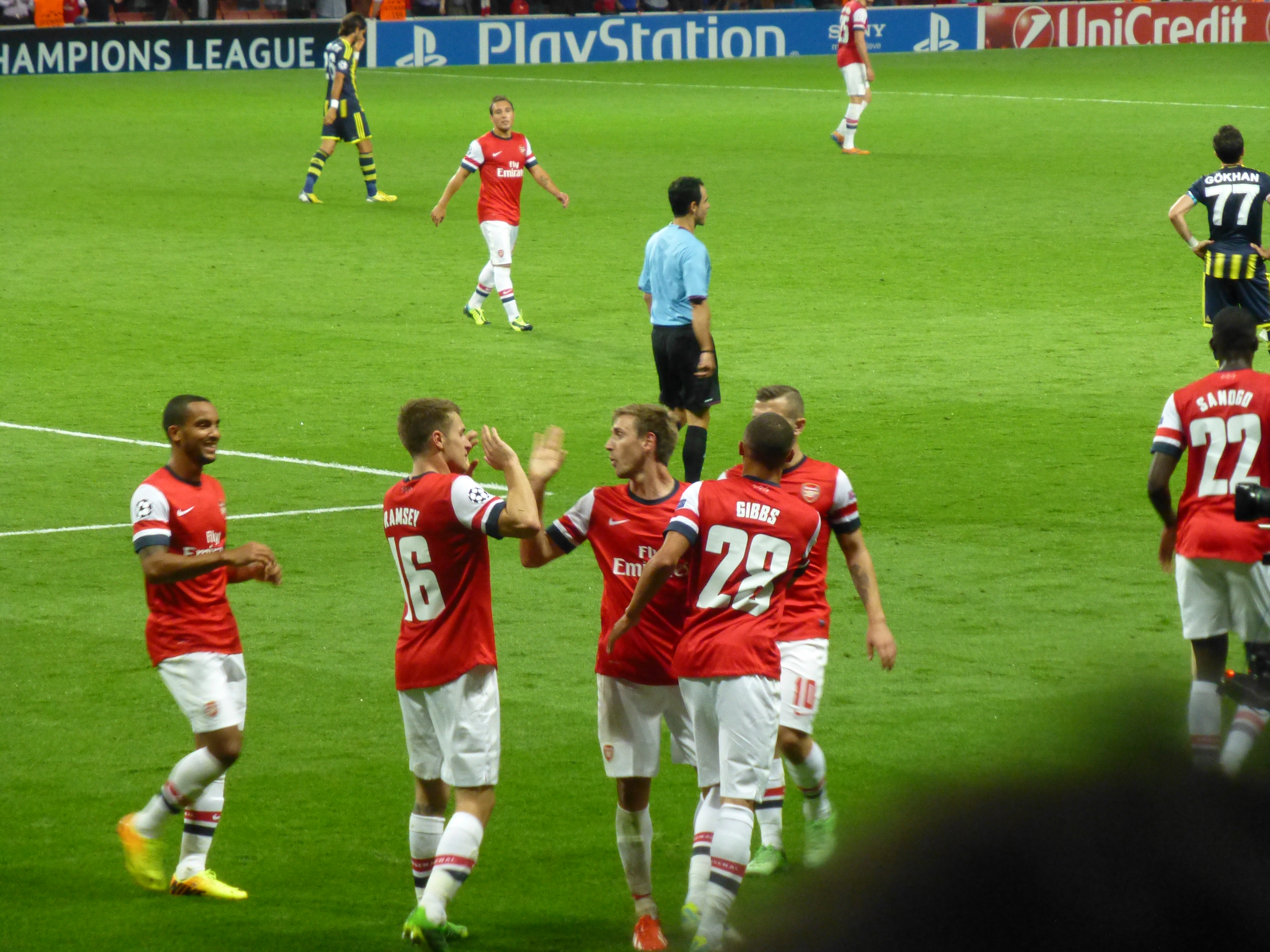 Nacho with a manly high five